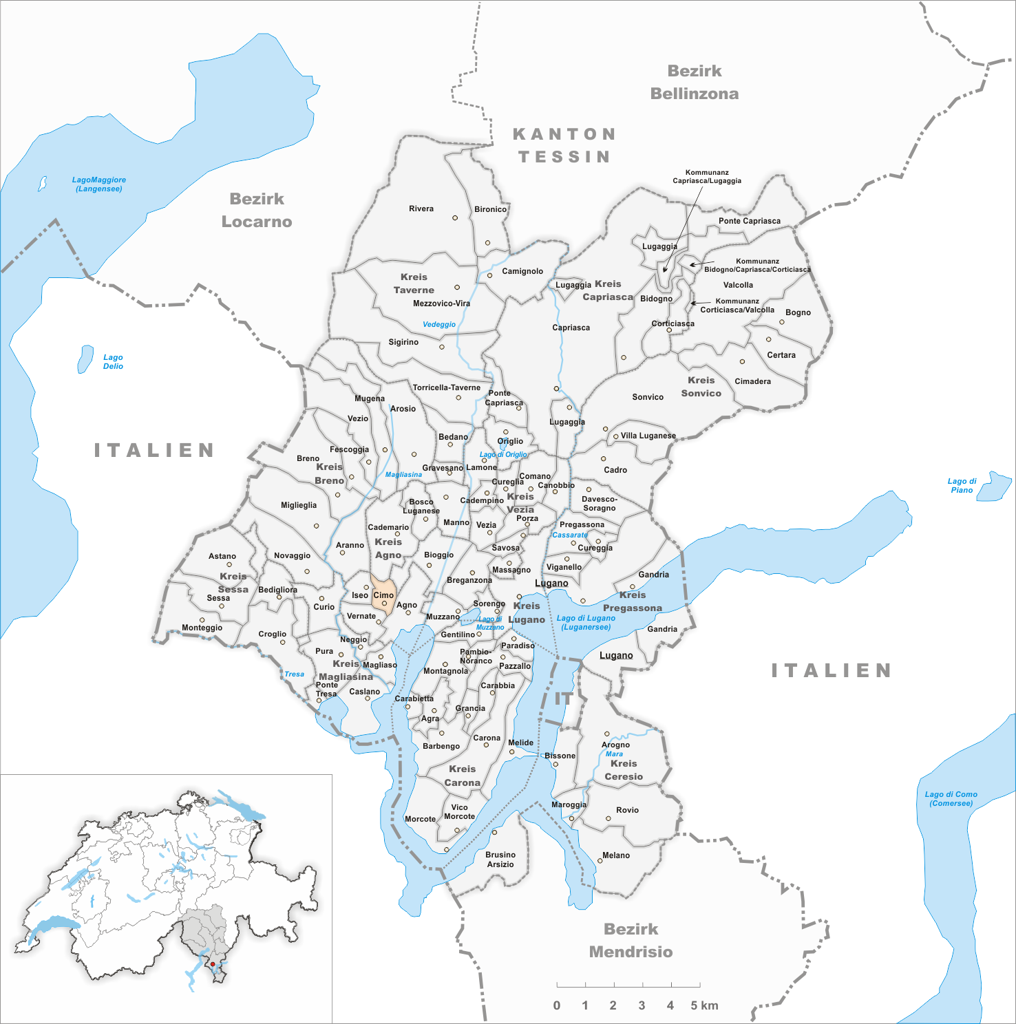 Municipality Cimo Artist: Tschubby